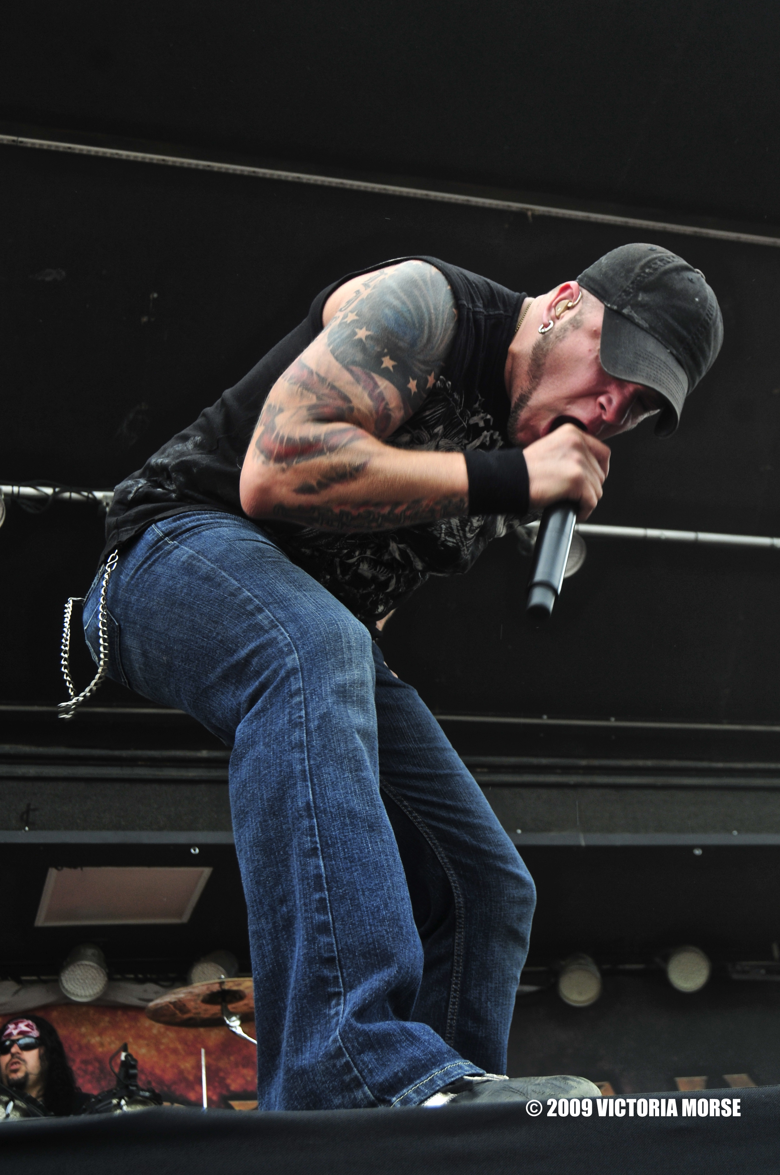 Philip Labonte vocalist of the band All That Remains